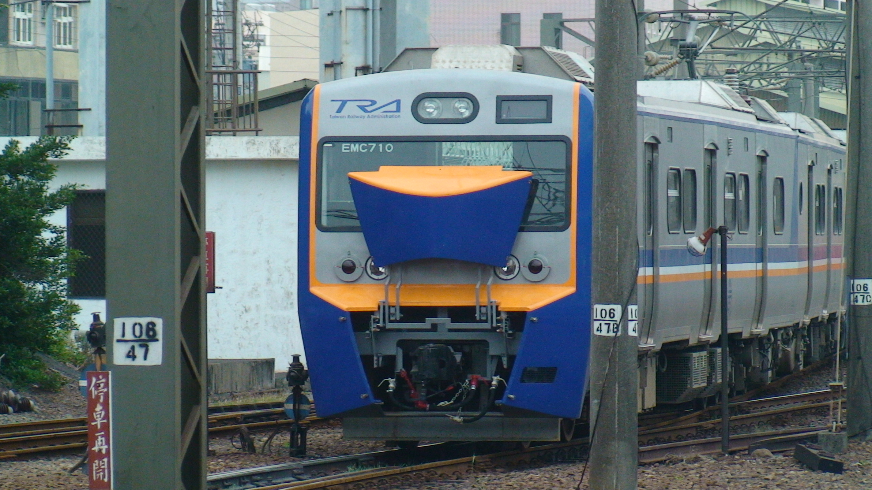 TRA EMC710, with its coupler cover open (taken at Hsinchu Station)